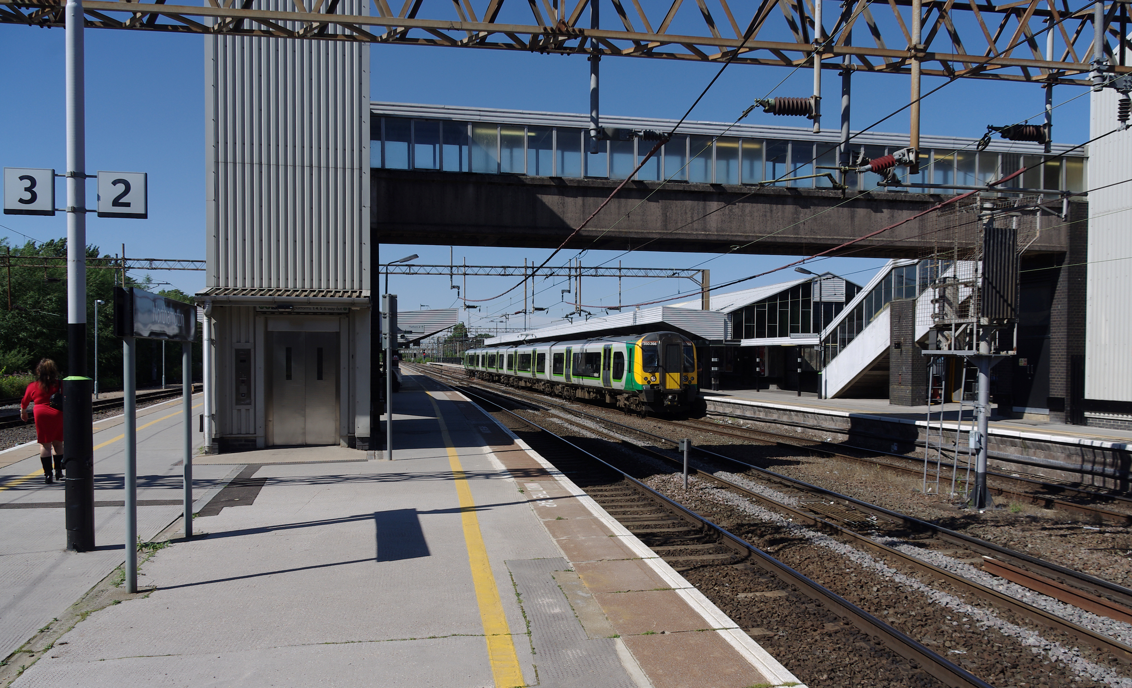 London Midland class 350 "Desiro" EMU 350266 stands at Northampton with a service to London Euston.